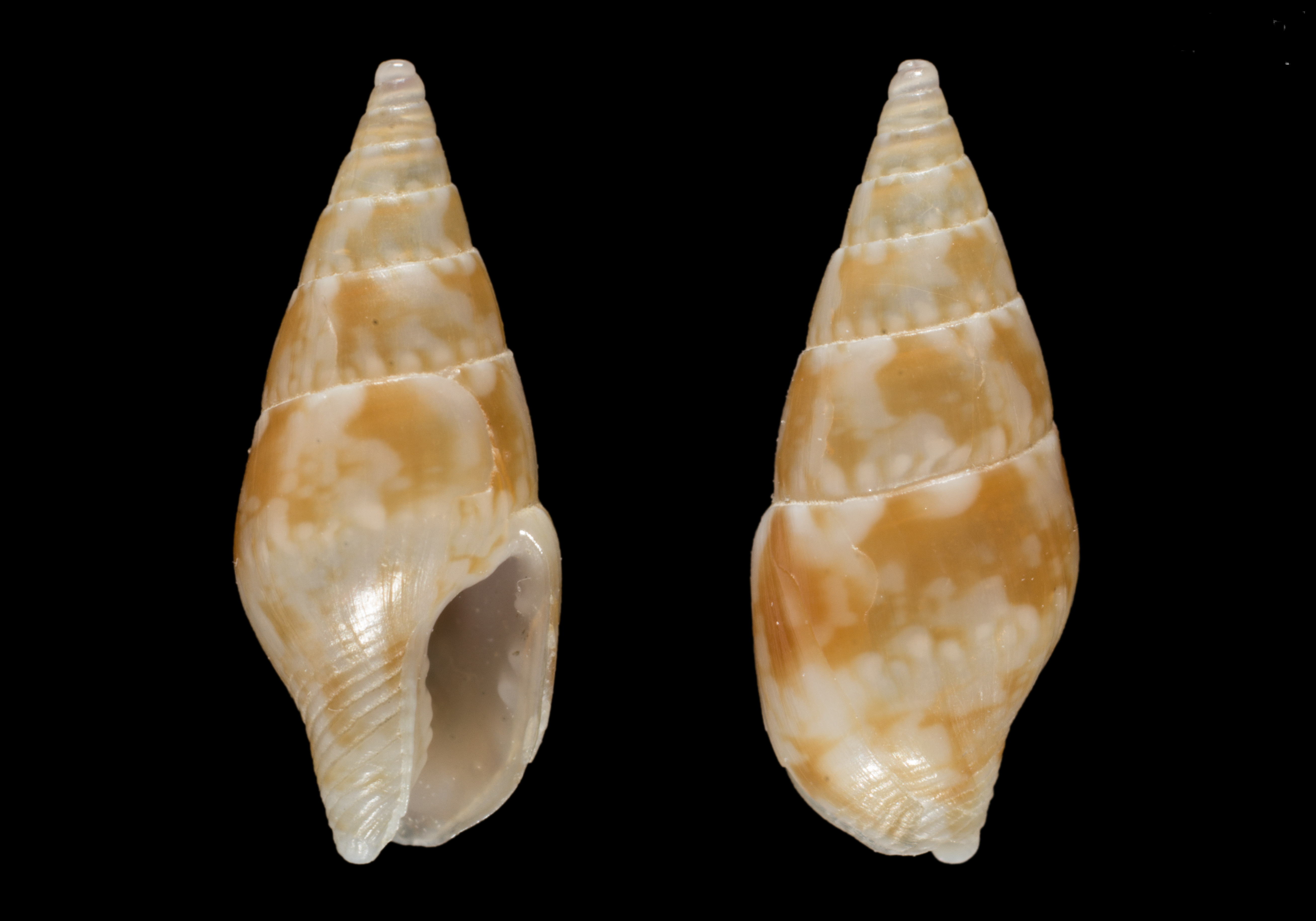 Mitrella aemulata Rolán, 2005; family Columbellidae